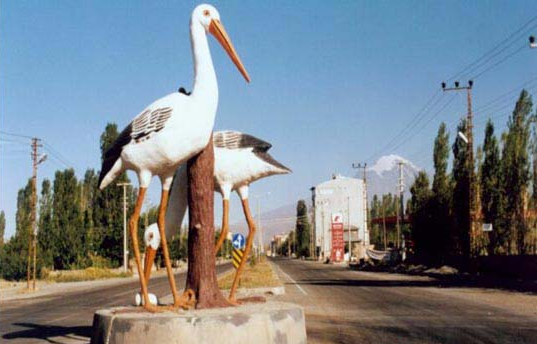 A view from Iğdır city